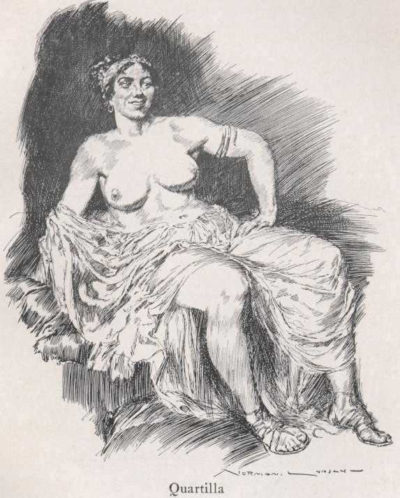 Quartilla - Illustration by Norman Lindsay for Petronius Arbiter's Satyricon